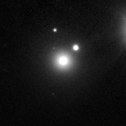 Black and White PanSTARRS image of NGC 3315.